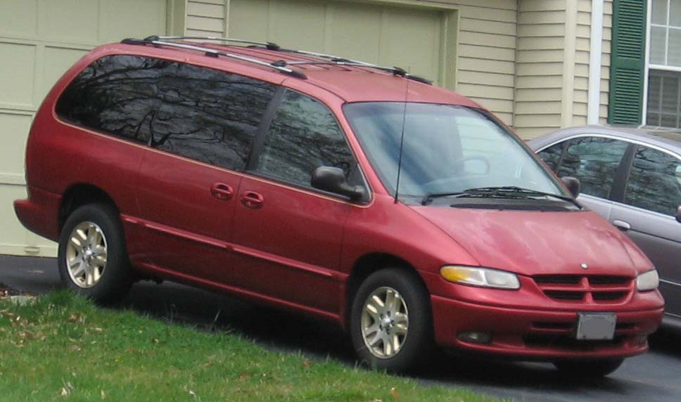 1996-2000 Dodge Grand Caravan ES photographed in USA.